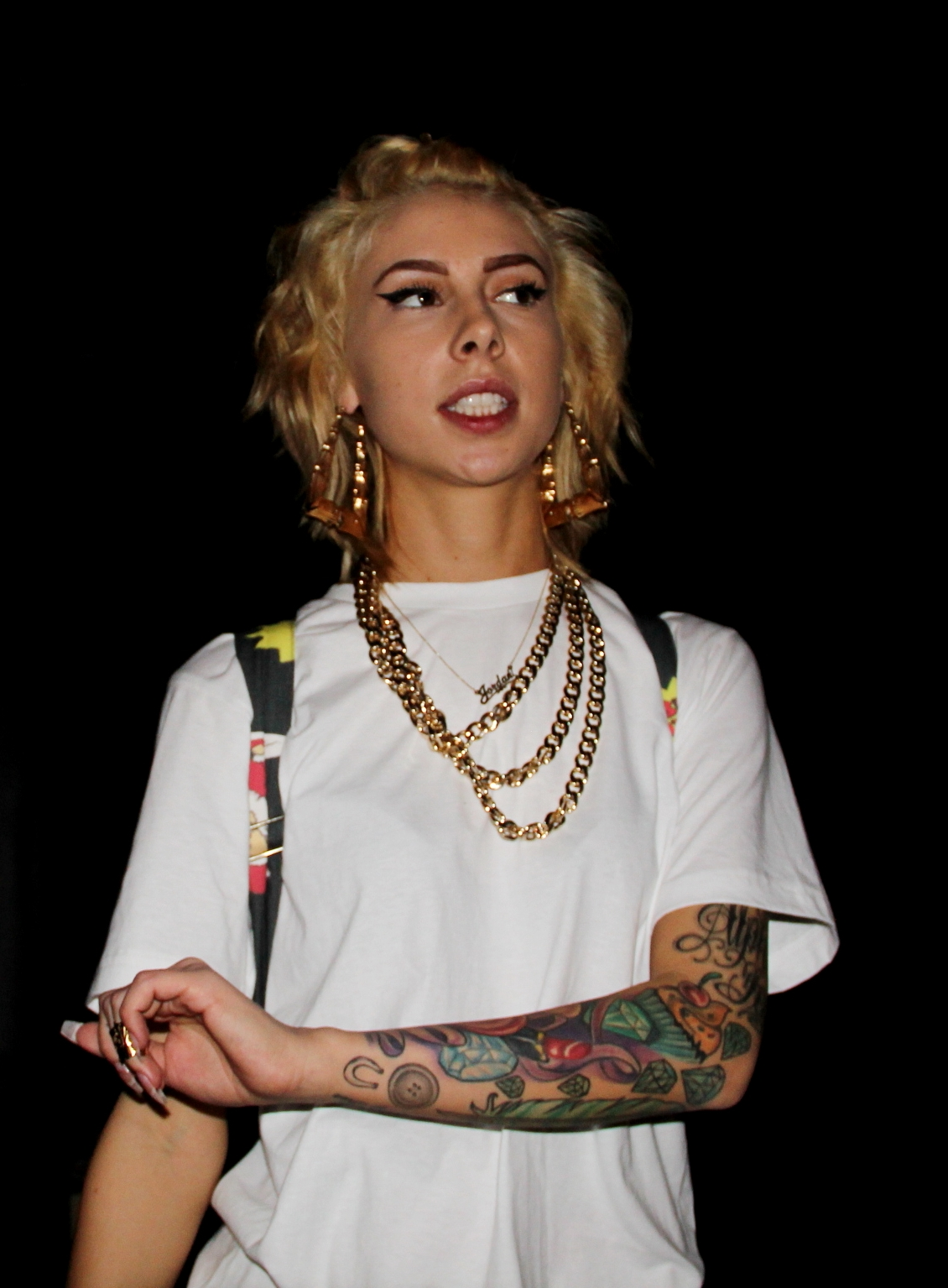 Hamish Thompson Likes boys, 2013